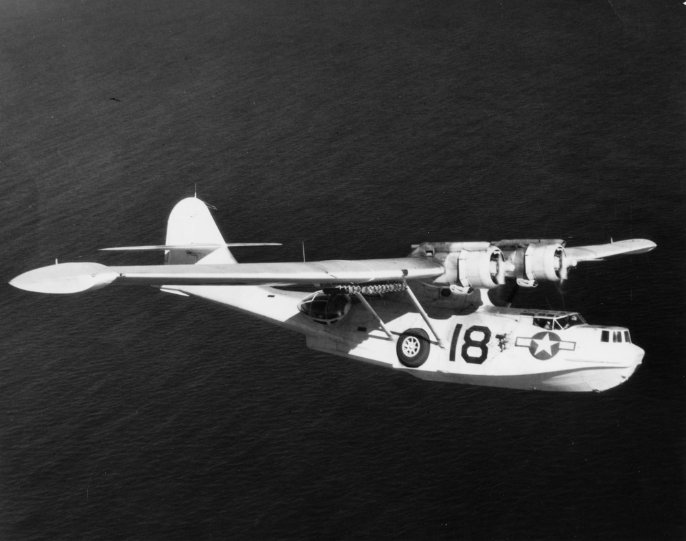 PictionID:41553411 - Title:Consolidated PBY-5A VP-63 Gibralter 1944 80-G-700504 - Catalog:16_000608 - Filename:16_000608.tif - - - - - Image from the Ray Wagner Collection. Ray Wagner was Archivist at the San Diego Air and Space Museum for several years and is an author of several books on aviation --- ---Please Tag these images so that the information can be permanently stored with the digital file.---Repository: San Diego Air and Space Museum